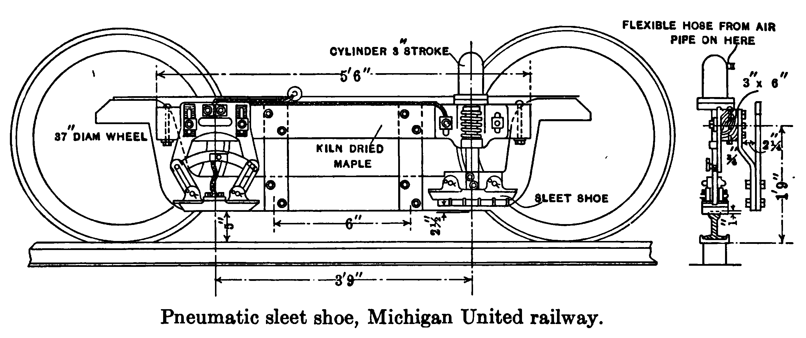 Mechanical sketch of pneumatic sleet shoe, developed for use on interurban electric railways. Taken from Jackson, Walter (1914). Electric Car Maintenance: Selected from the Electric Railway Journal. McGraw-Hill (pg. 102). [1]